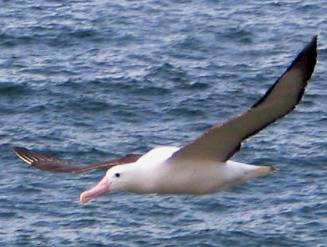 photo of a Northern Royal Albatross (Diomedea epomophora sanfordi) at Taiaroa Head, New Zealand for taxobox This is a retouched picture, which means that it has been digitally altered from its original version. Modifications: clone and crop by Lycaon.